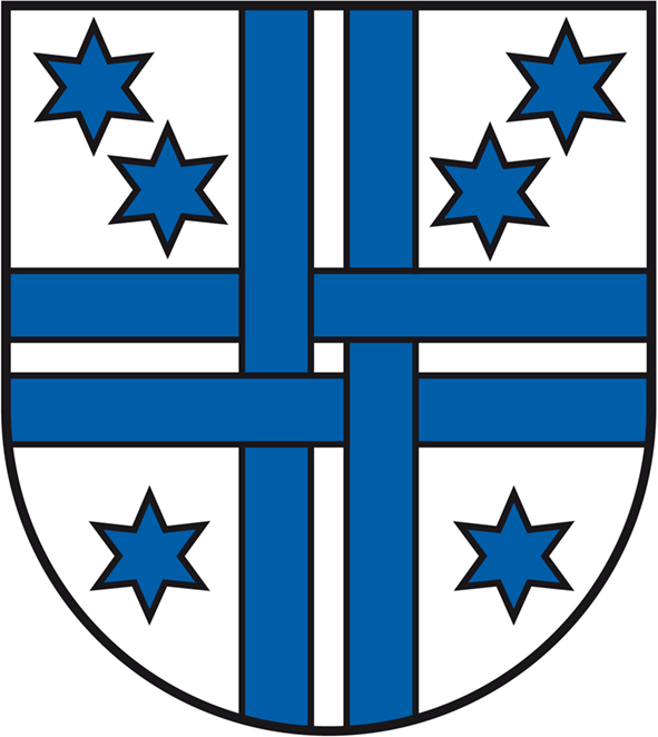 Coat of arms of Möser